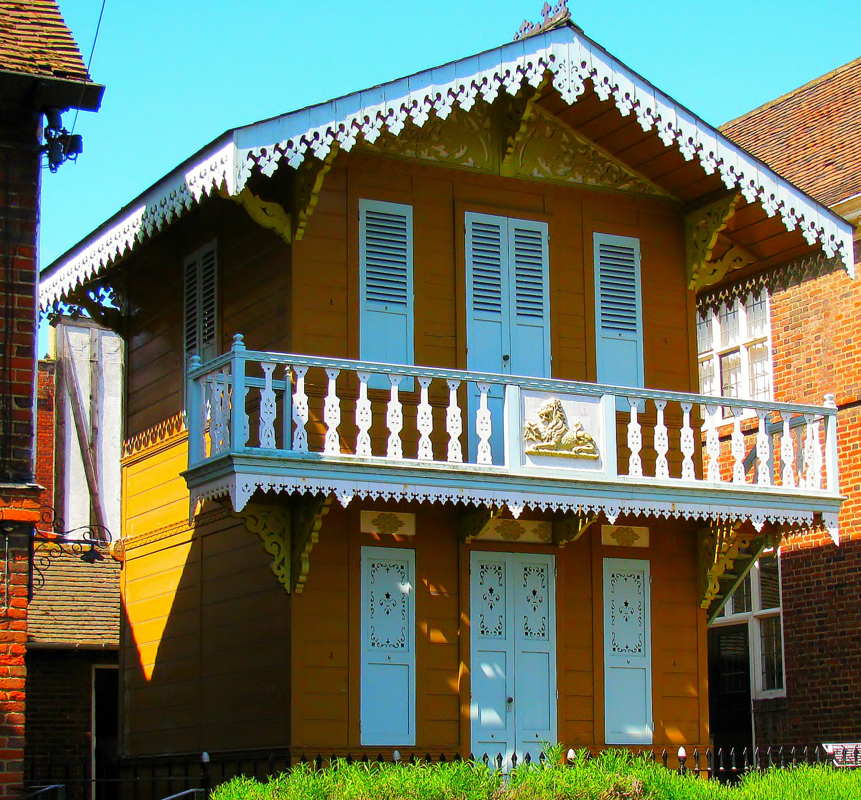 Dickens Chalet to Rear of Eastgate House